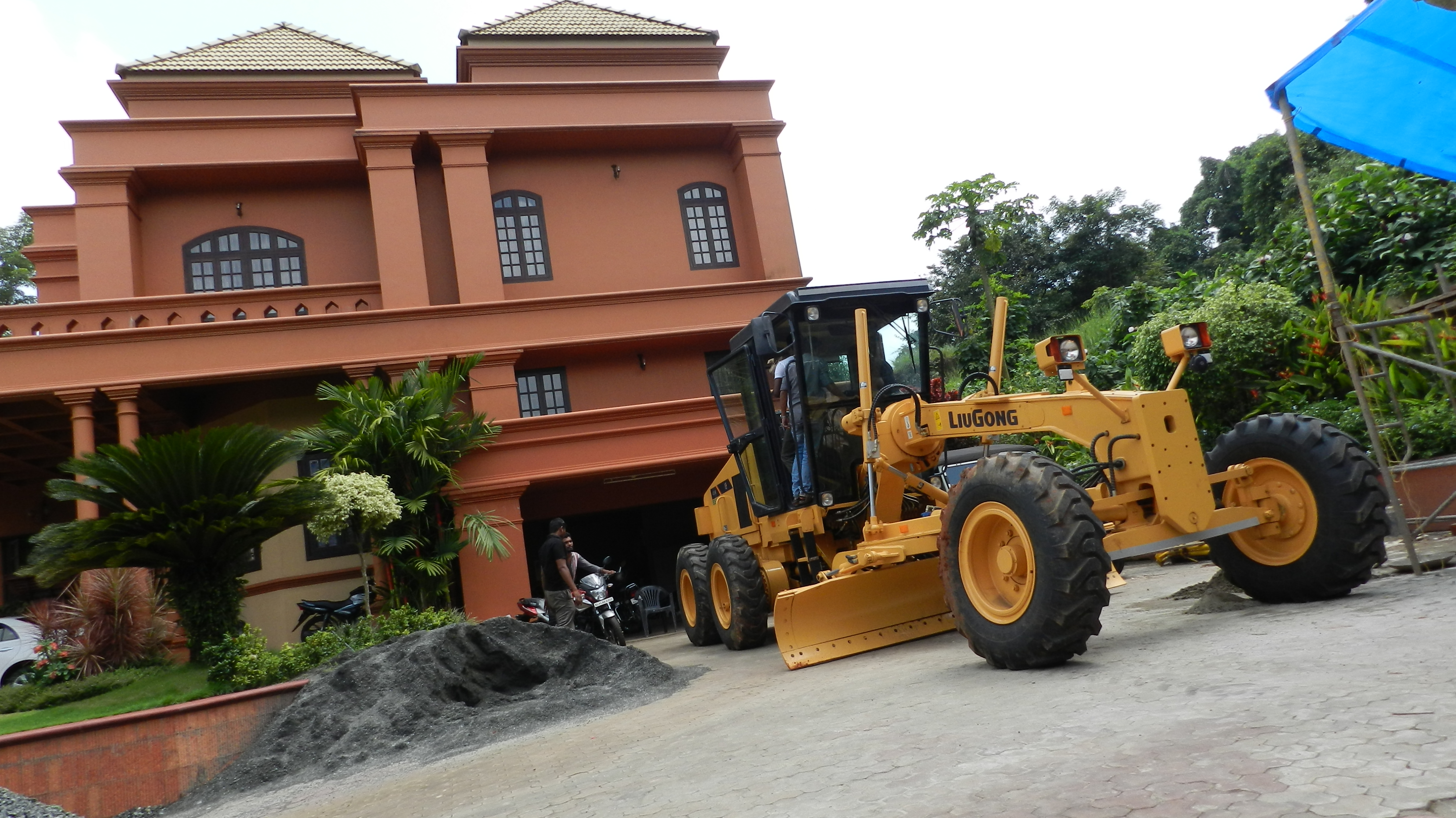 CLG414BSIII @ God's own country (Kerala)